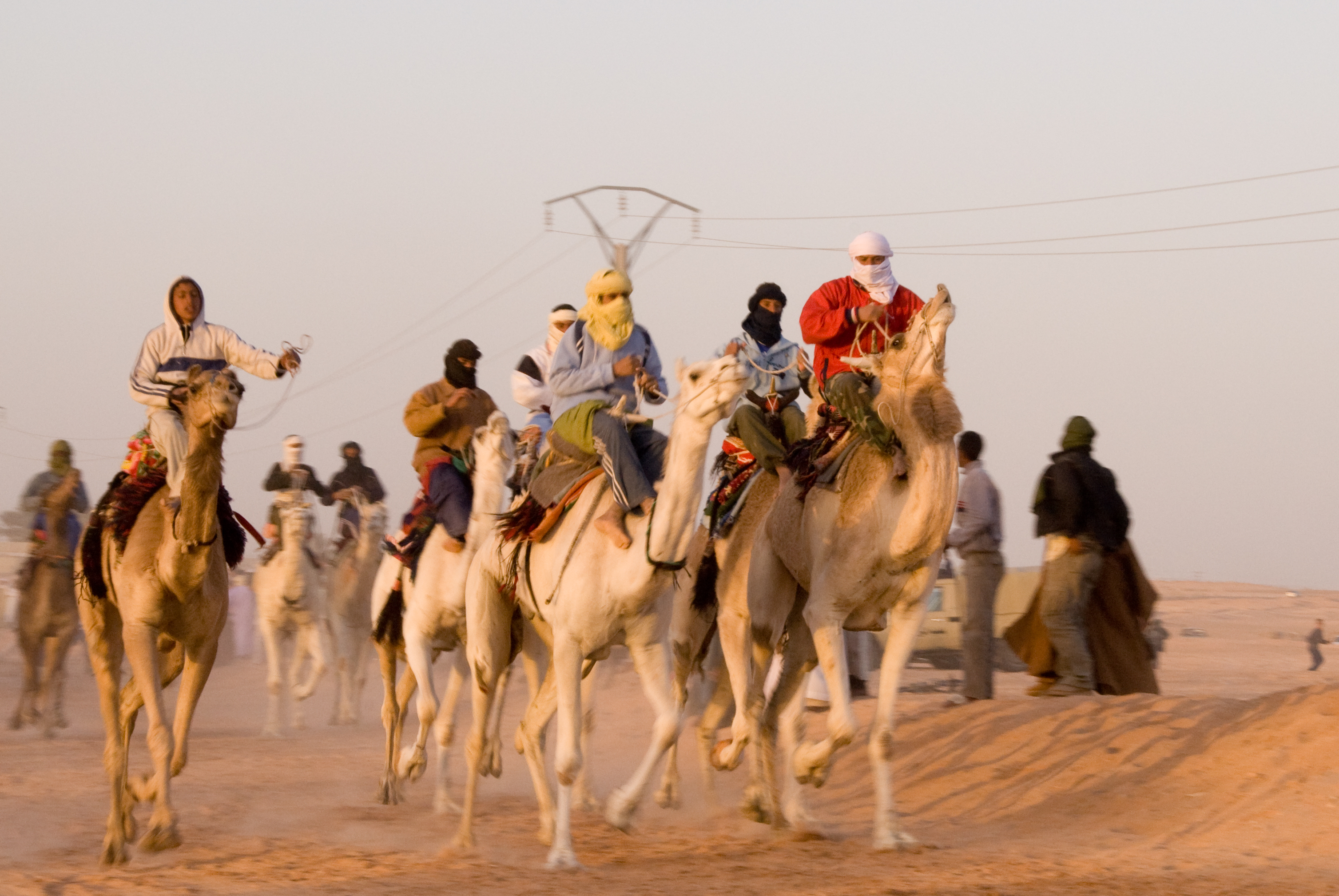 A Camel Race at Ouargla, south of Algeria, entry of Tassili desert, near Hassi Messaoud February 27th 2007